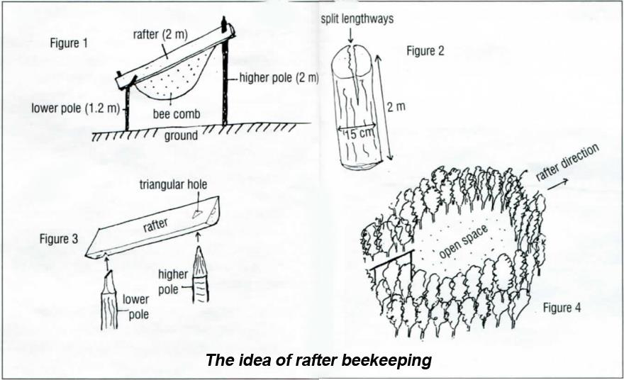 Rafter beekeeping of Apis dorsata